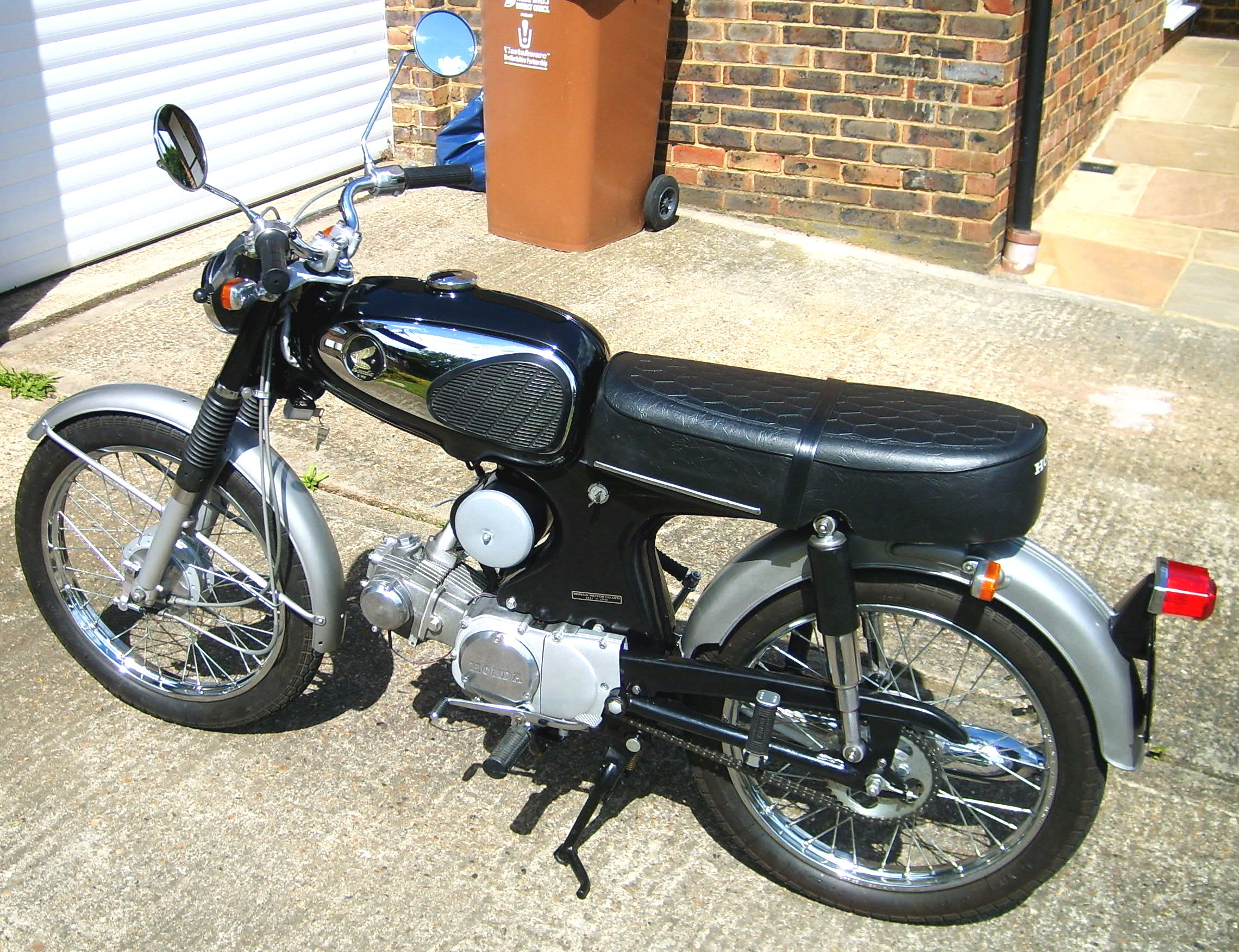 1966 Honda S90